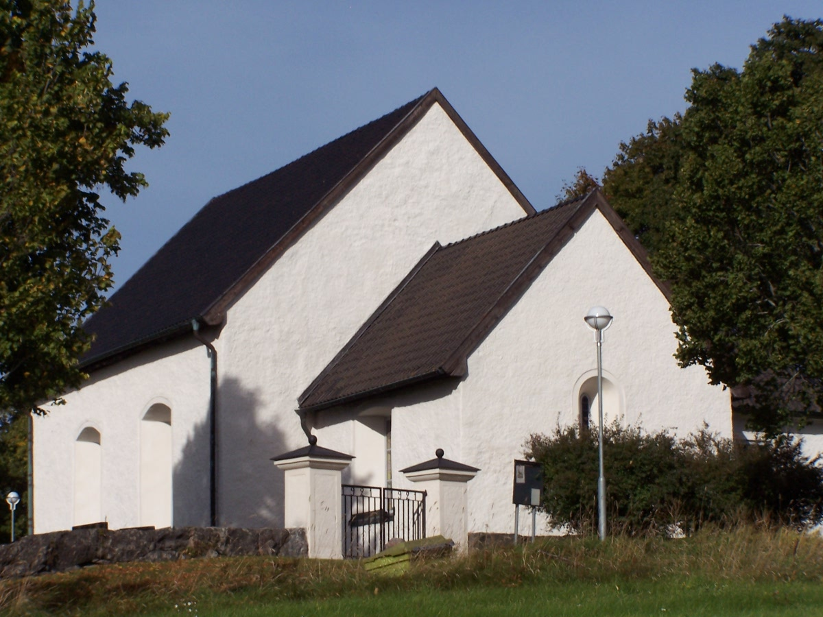 Lästringe church, Sweden